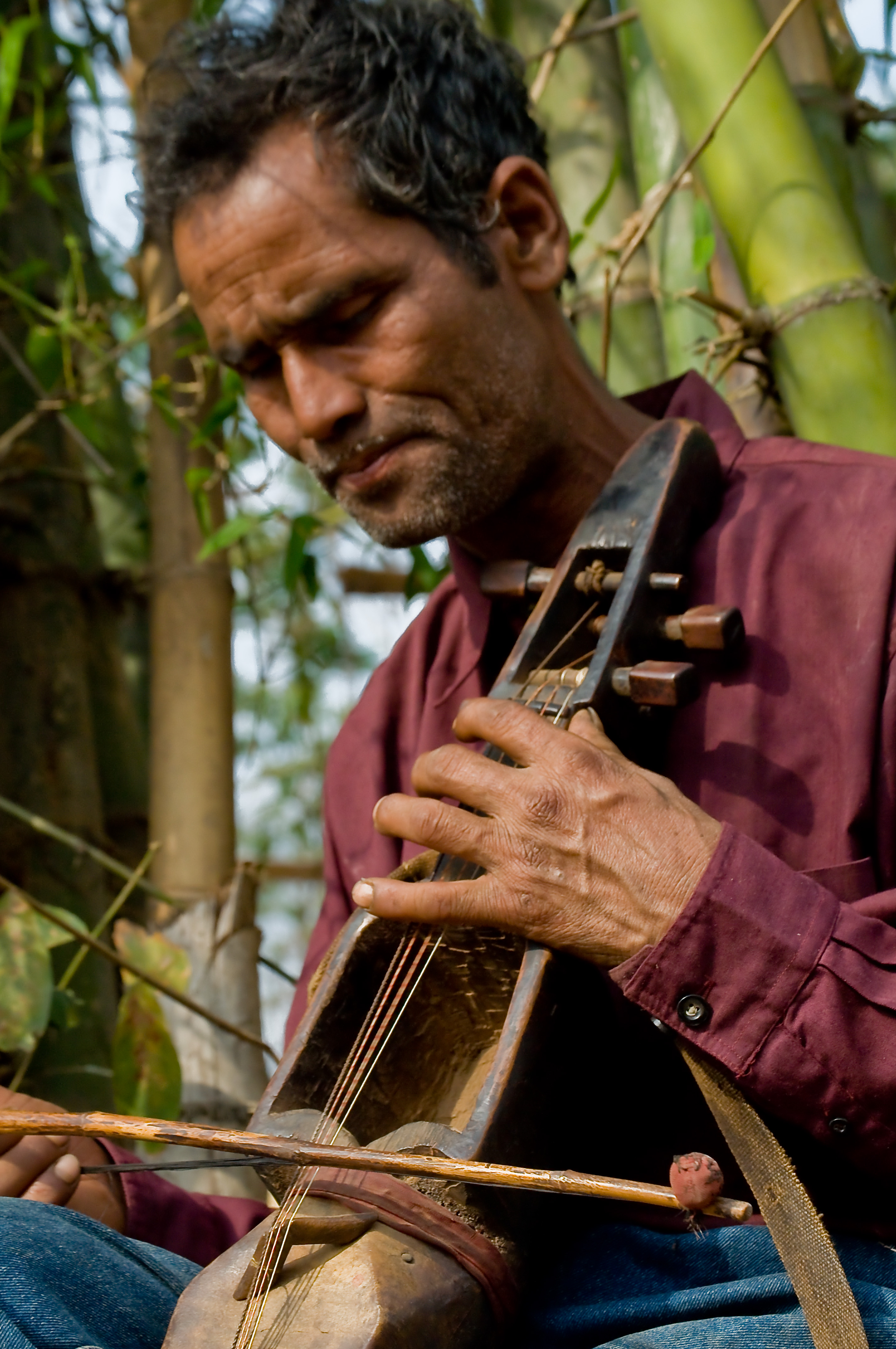 Bhim Bahadur plays the traditional sarangi made from bamboo, Nepal